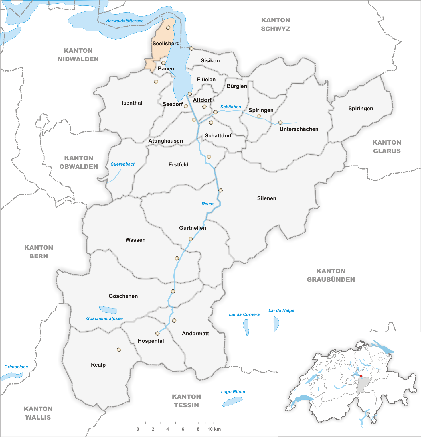 Municipality Seelisberg